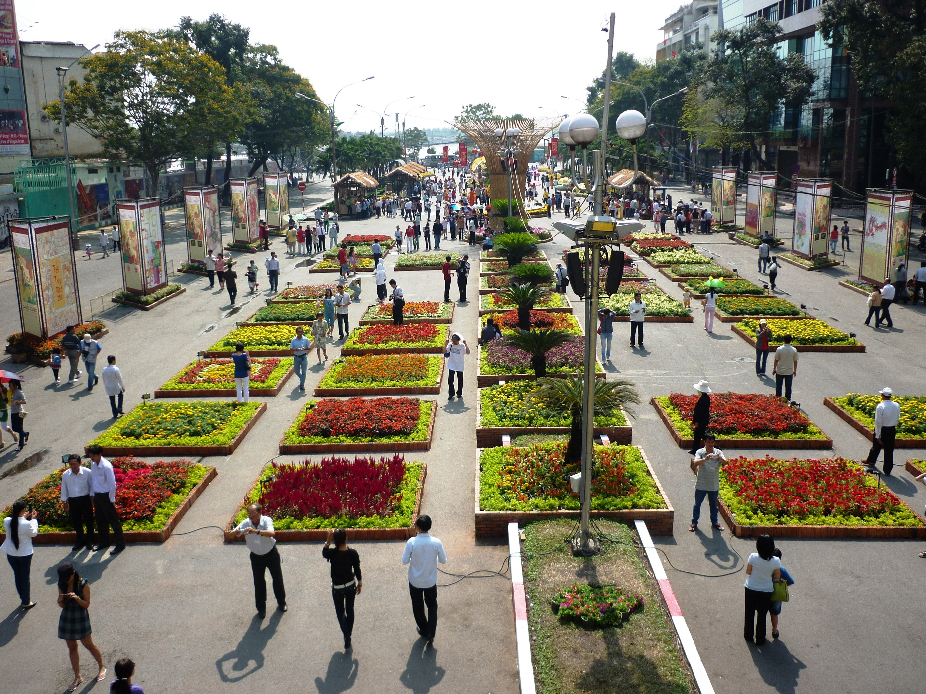 The project: In Season